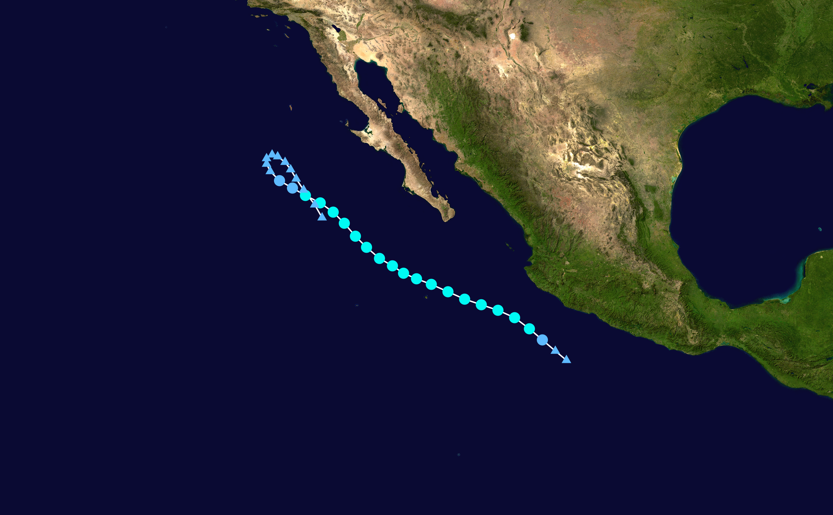 Track map of Tropical Storm Kristy of the 2012 Pacific hurricane season. The points show the location of the storm at 6-hour intervals. The colour represents the storm's maximum sustained wind speeds as classified in the Saffir–Simpson scale (see below), and the shape of the data points represent the nature of the storm, according to the legend below. Saffir–Simpson scale Tropical depression≤38 mph≤62 km/h Category 3111–129 mph178–208 km/h Tropical storm39–73 mph63–118 km/h Category 4130–156 mph209–251 km/h Category 174–95 mph119–153 km/h Category 5≥157 mph≥252 km/h Category 296–110 mph154–177 km/h Unknown Storm type Tropical cyclone Subtropical cyclone Extratropical cyclone / Remnant low / Tropical disturbance / Monsoon depression